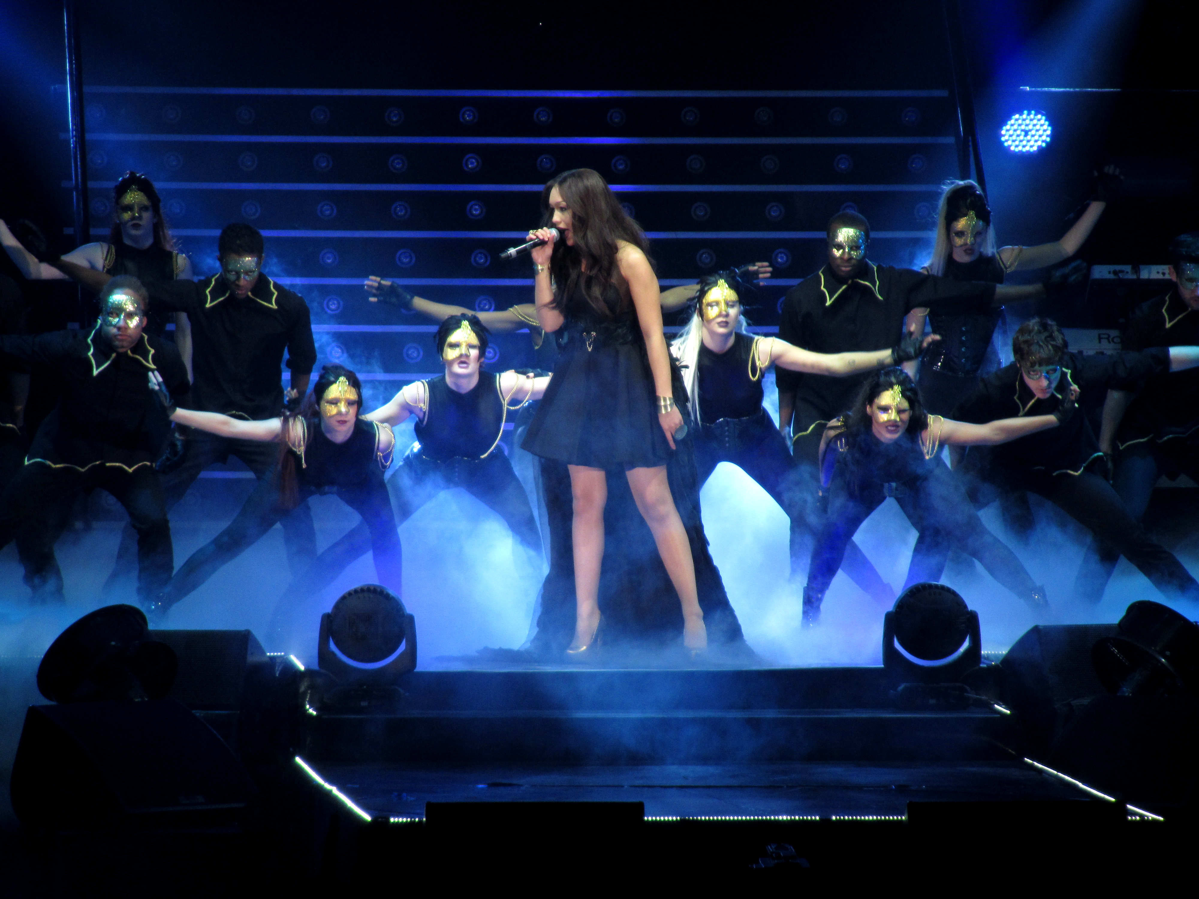 Rebecca Ferguson, The X Factor Live, SECC, Glasgow, 1 April 2011